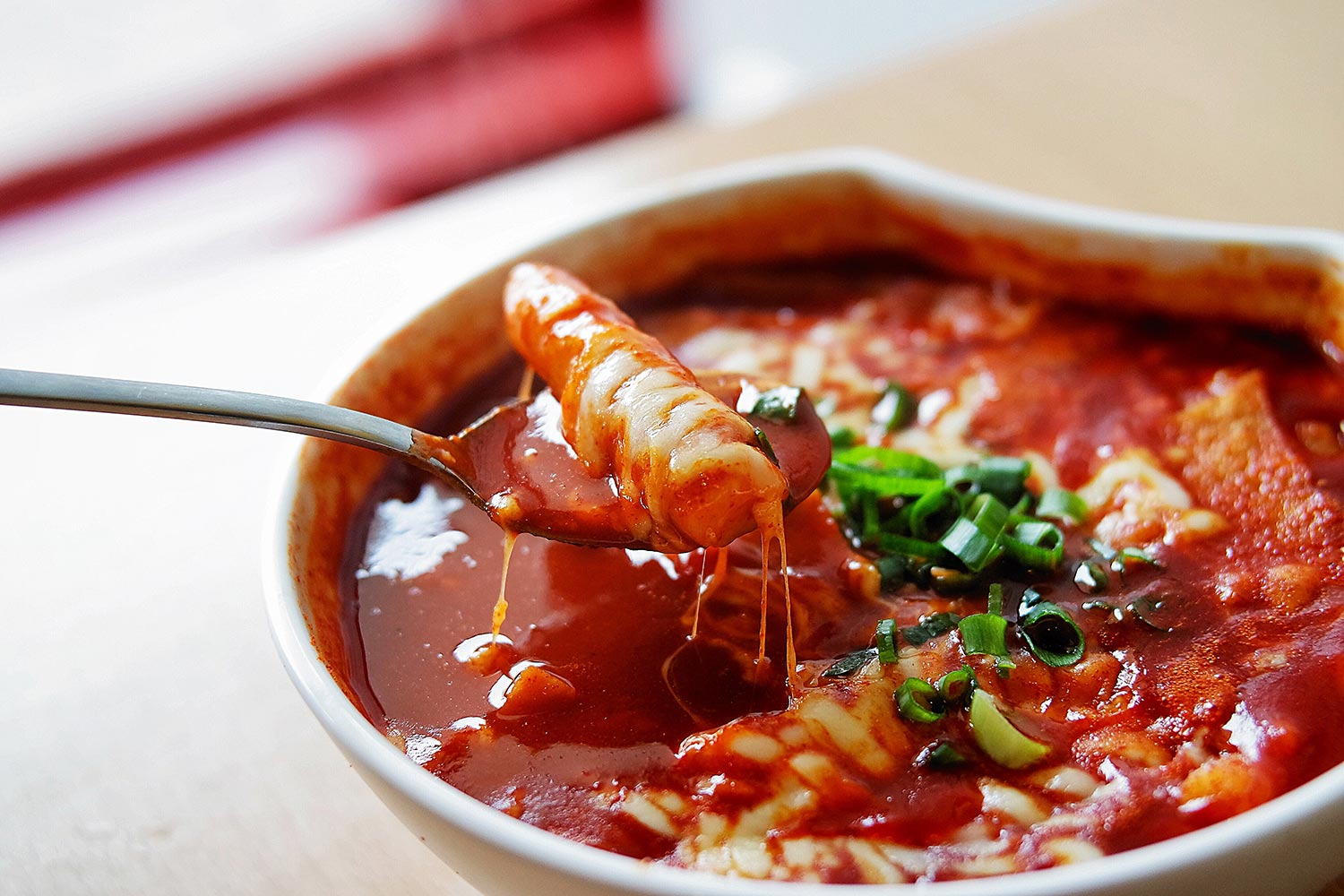 cheese-tteok-bokki